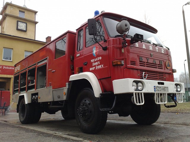 A firetruck Jelcz 005M (on Star 244 chassis) GBA 2,5/16 from city of Żory, Poland